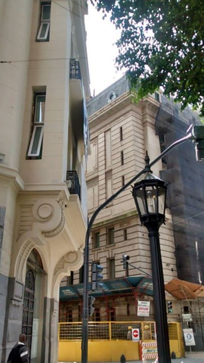 Intersección de calles Bolívar y Moreno. A la izquierda, el Palacio Raggio; a la derecha, el Colegio Nacional de Buenos Aires, Argentina. 7″ S, 58° 22′ 25.5″ W Argentina has no "freedom of panorama" provision in its copyright law, neither are buildings mentioned among works to which copyright apply. At least some think there is de facto freedom of panorama in Argentina regarding buildings: It is uncontroversially accepted that buildings can be reproduced by paintings or photographs, without this reproduction infringing copyright. "Se ha admitido pacificamente que los edificios puedan ser reproducidos mediante pinturas o fotografías, sin estimarse que esta reproducción lesione los derechos de autor."— Dr. Emery, Miguel Angel (profesor of Intellectual property law in Argentina), Propiedad Intelectual, Astrea Editors 4th. edition ISBN 9789505085231. p.40 op cit Copyright law of Argentina (in Spanish) See COM:CRT/Argentina#Freedom of panorama for more information.